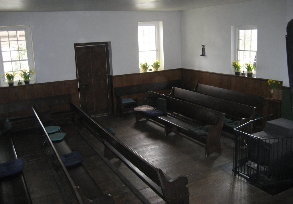 Picture of the interior of the Centre Friend Meetinghouse, in Centreville, New Castle County, Delaware, USA.